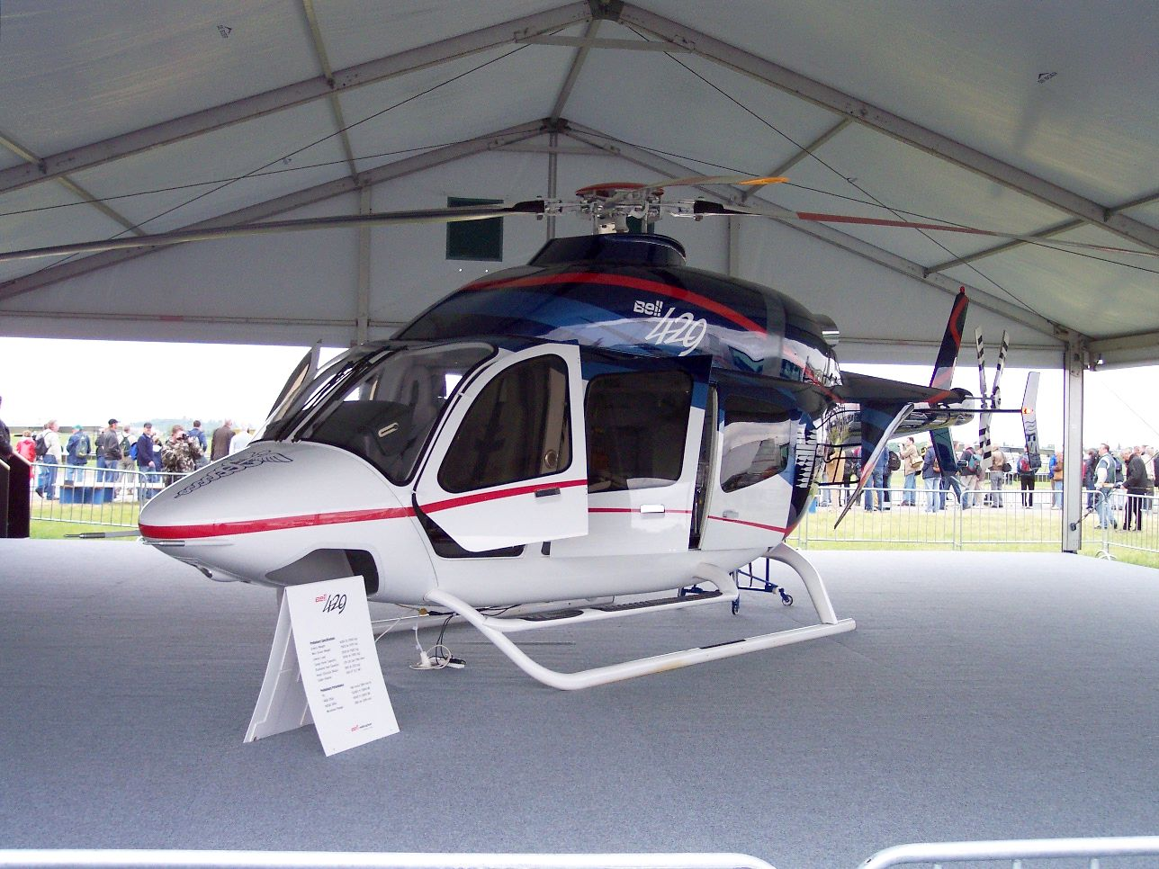 Bell 429 mock-up